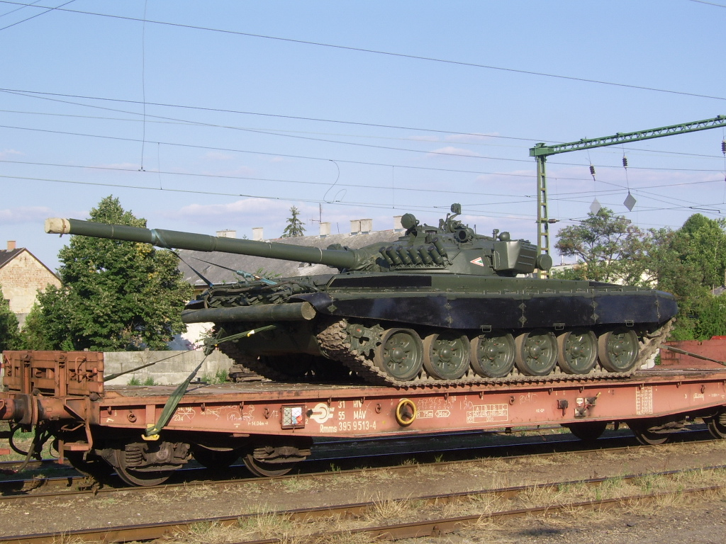 Hungarian T-72 battle tank on a type Rmms rail cargo wagon, Kecskemét railway station, Hungary